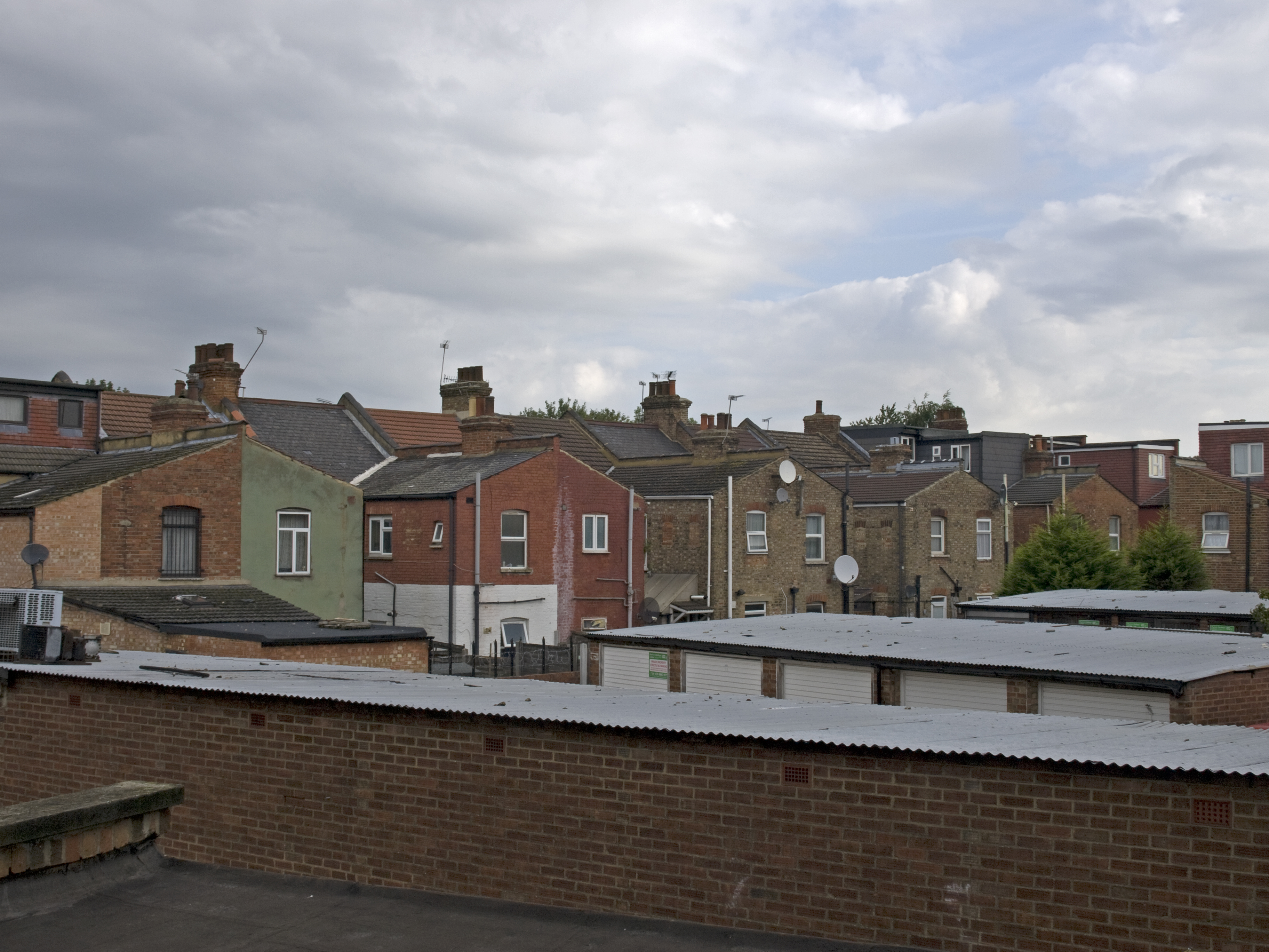 Houses in inner yards in Leyton, between William St, Atkins Rd, Belmont Park Rd, and High St